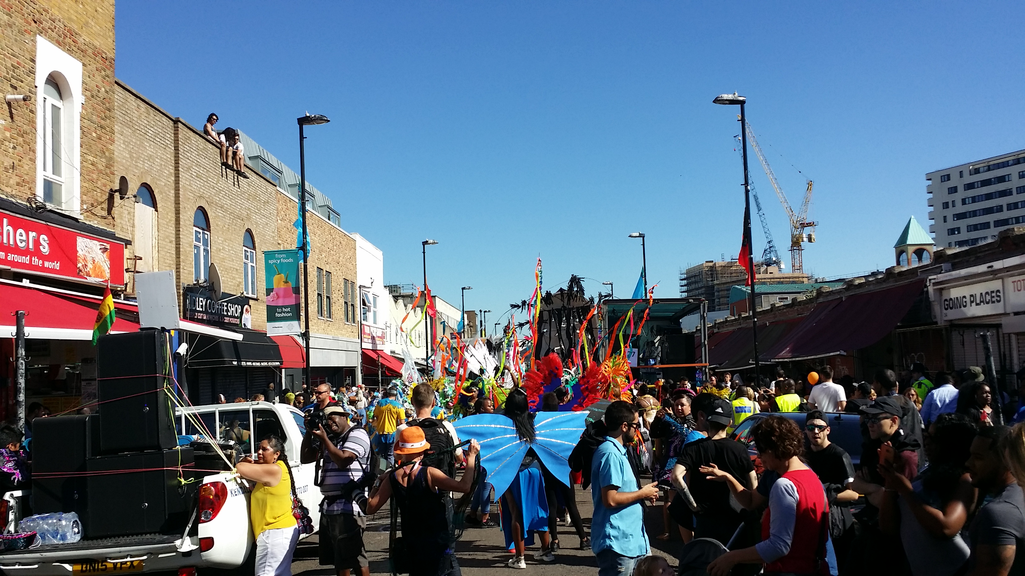 Hackney One Carnival - Ridley road - 2016-09-11